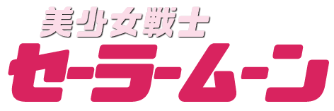 Logo of Sailor Moon (美少女戦士セーラームーン).